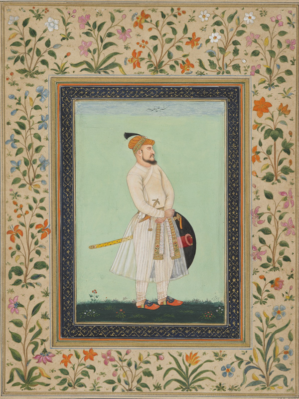 Qilich Khan ca. 1900 Mughal dynasty Opaque watercolor, ink, and gold on paper H: 30.9 W: 23.8 cm India Purchase--Smithsonian Unrestricted Trust Funds, Smithsonian Collections Acquisition Program, and Dr. Arthur M. Sackler S1986.441